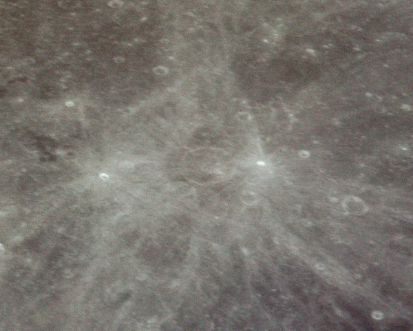 Oblique view of Stevinus (center) with Stevinus A at right and Furnerius A at left (both small craters with bright ray systems), on the moon. Facing roughly south.